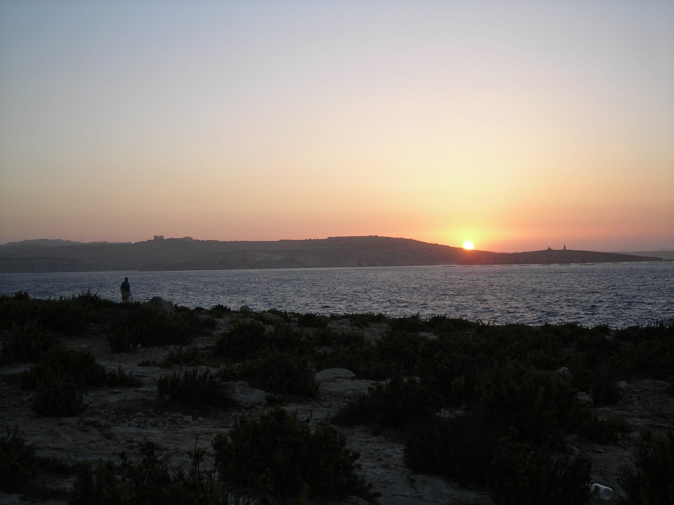 View over the Bay of St. Paul's Bay to Mellieħa and the St Paul's Islands at sunset.